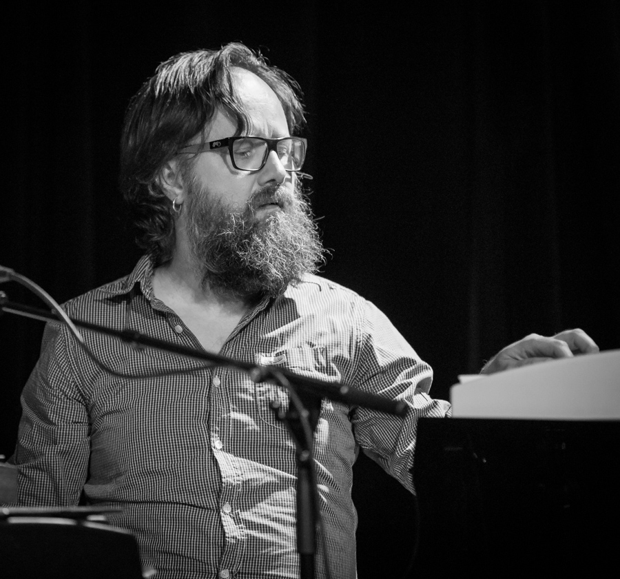 Jørn Øien with Torun Eriksen at the stage at Victoria Teater. The concert was part of Oslo Jazzfestival and took place on 17. August 2017. Lineup: Torun Eriksen (vocal), Jørn Øien (piano), Kjetil Dalland (bass guitar), Andres Bye (drums) and Ole Jørn Myklebust (trumpet).